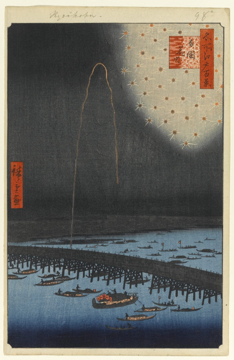 Part of the series One Hundred Famous Views of Edo, no. 098, part 3: Autumn.